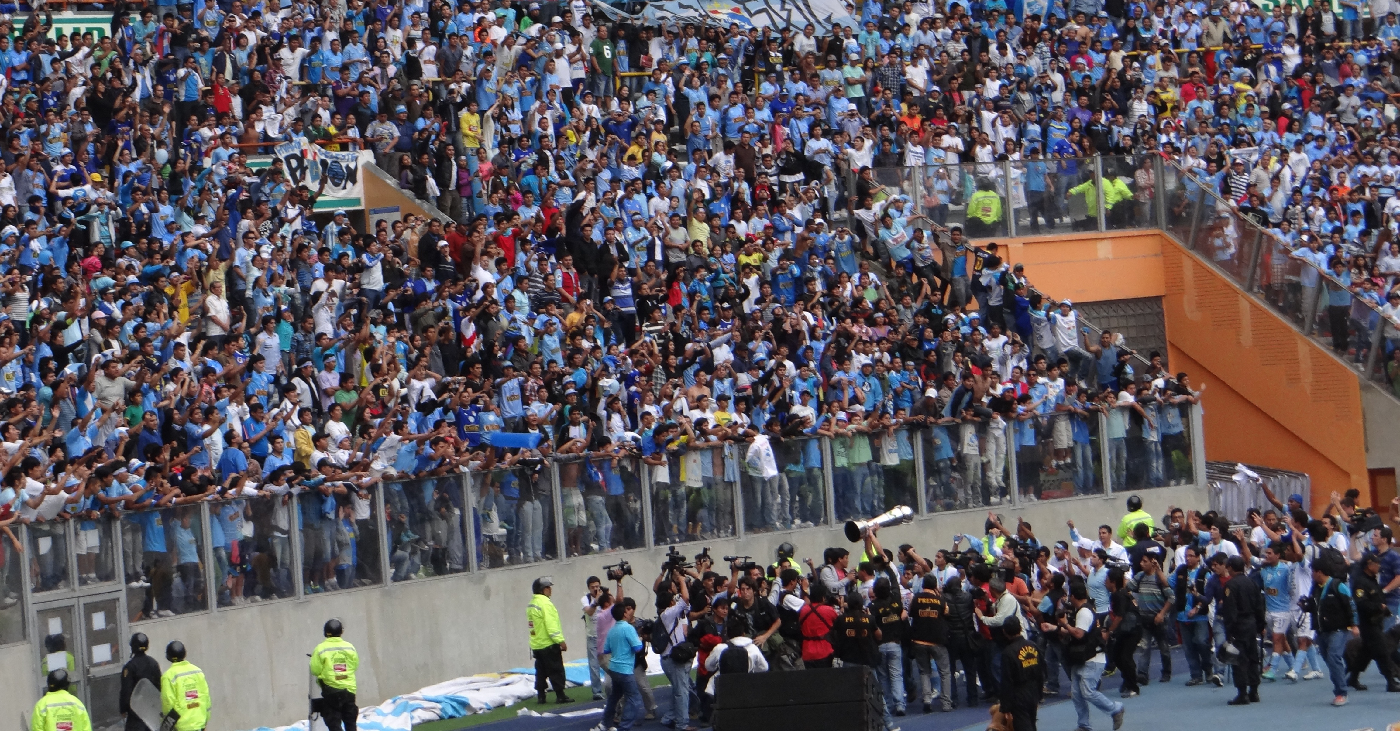 2012 Sporting Cristal vuelta olimpica at Estadio Nacional